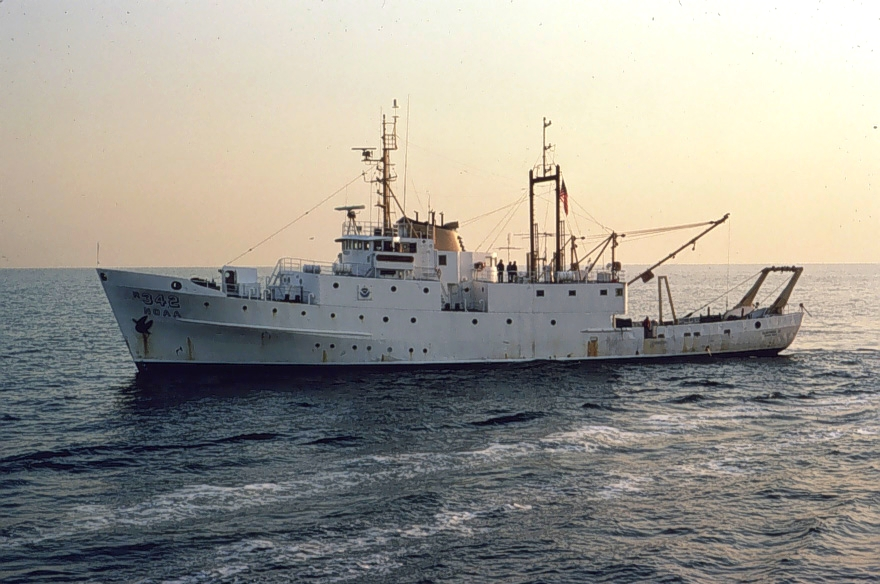 NOAA Ship ALBATROSS IV - Image ID: theb0477, NOAA Ship Collection